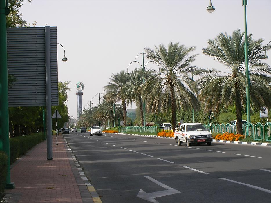 Street in Al-Ain, United Arab Emirates